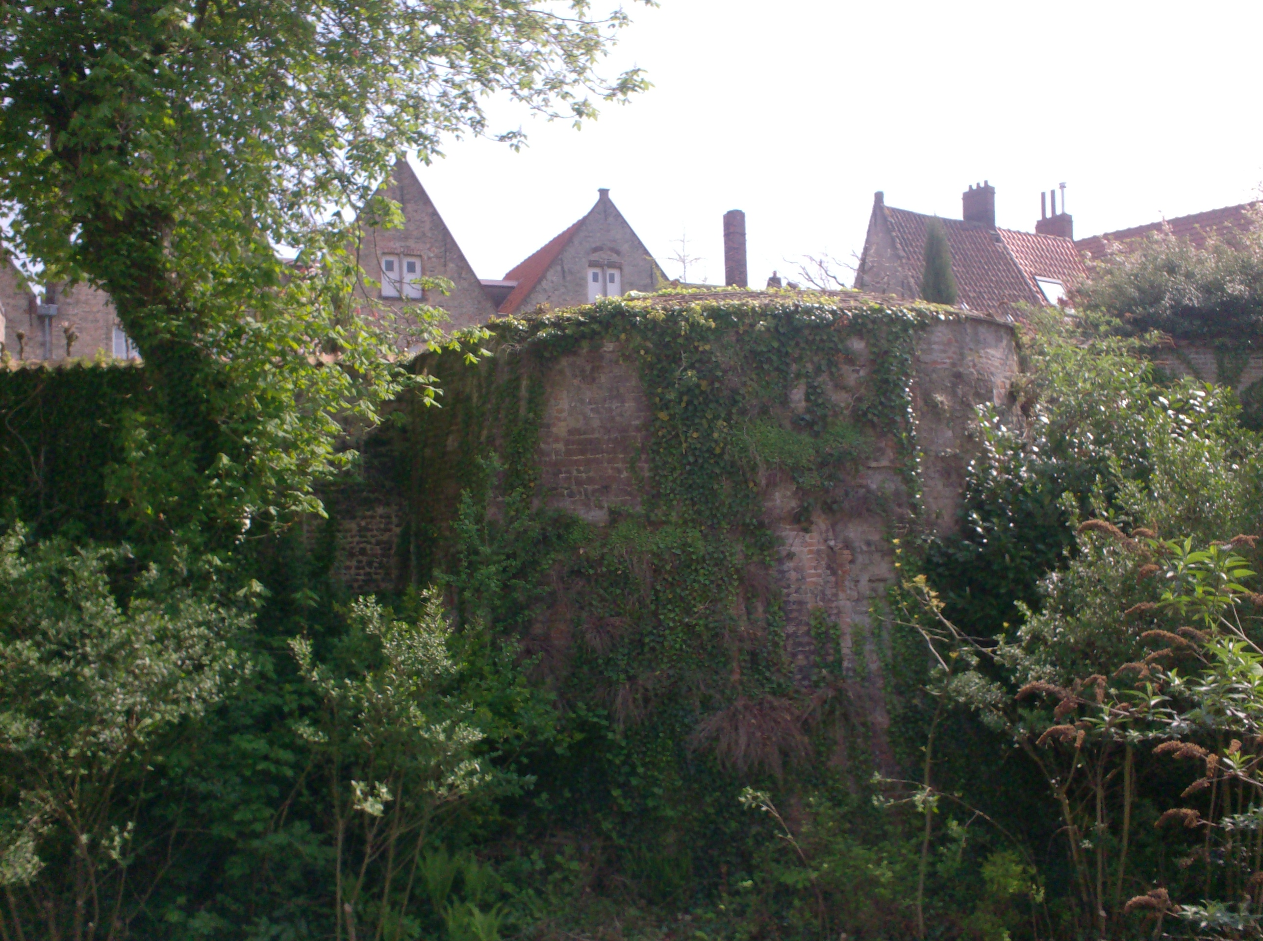 The only tower left from the first rampart of Bruges (12th century)